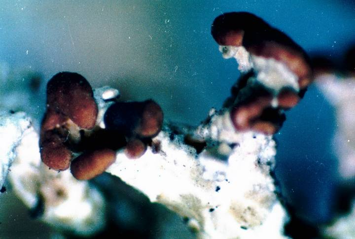 Cladonia cariosa (Ach.) Spreng., 1827 (photograph of a herbarium specimen taken through a dissecting microscope (x30) showing chocolate-brown apothecia) Growing on soil in Cladina barrens in open Jack Pine woods near Crumley Creek, off US-68, Cheboygan, Michigan, USA; collected and identified by Richard E. Riefner (No. 81-223, 14 Jul 1981); specimen is now in the Lichen Herbarium of the New York Botanical Garden.